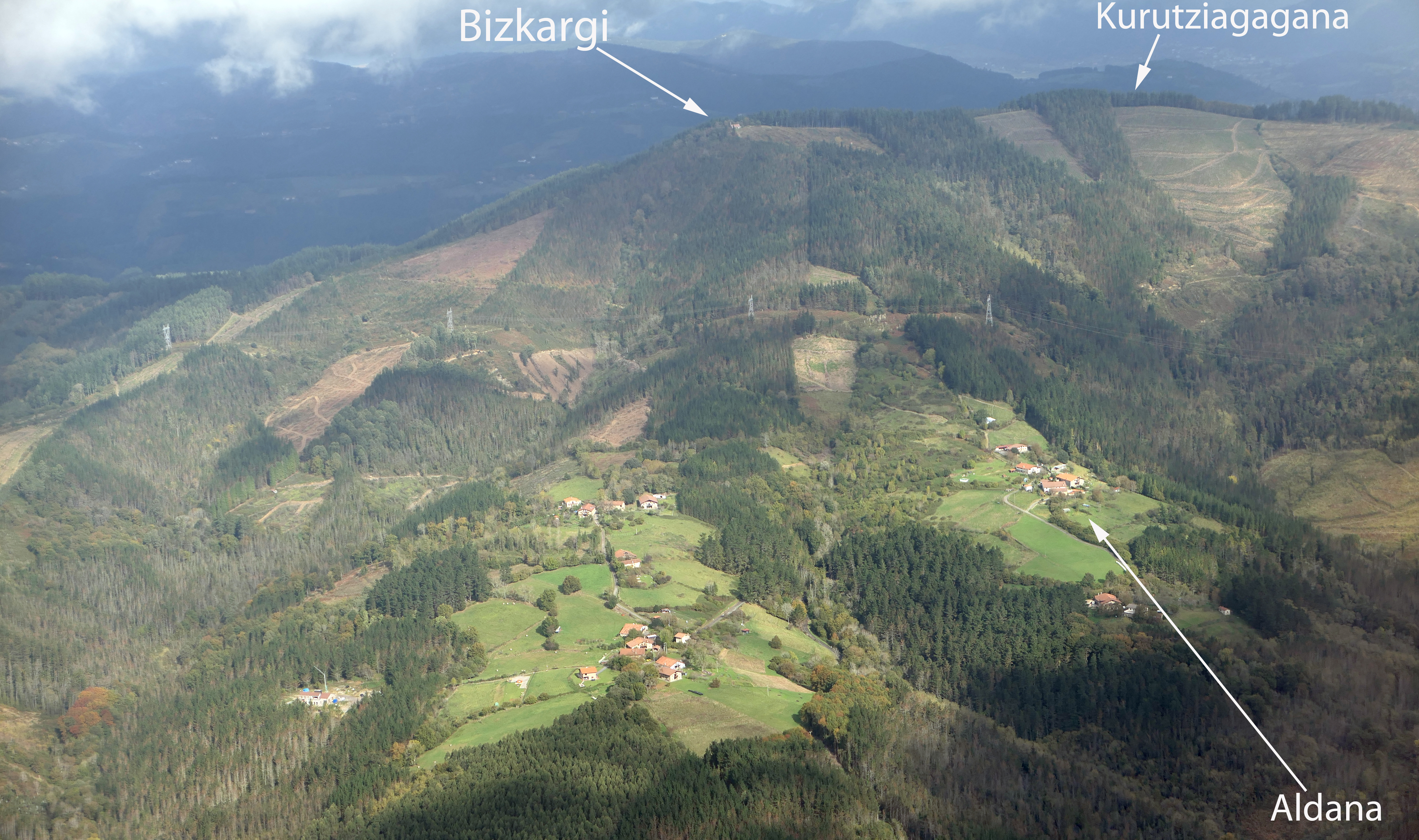 An aerial view of the hamlet of Aldana and the summits of Bizkargi and Kurutziagagana, in the Basque Country.